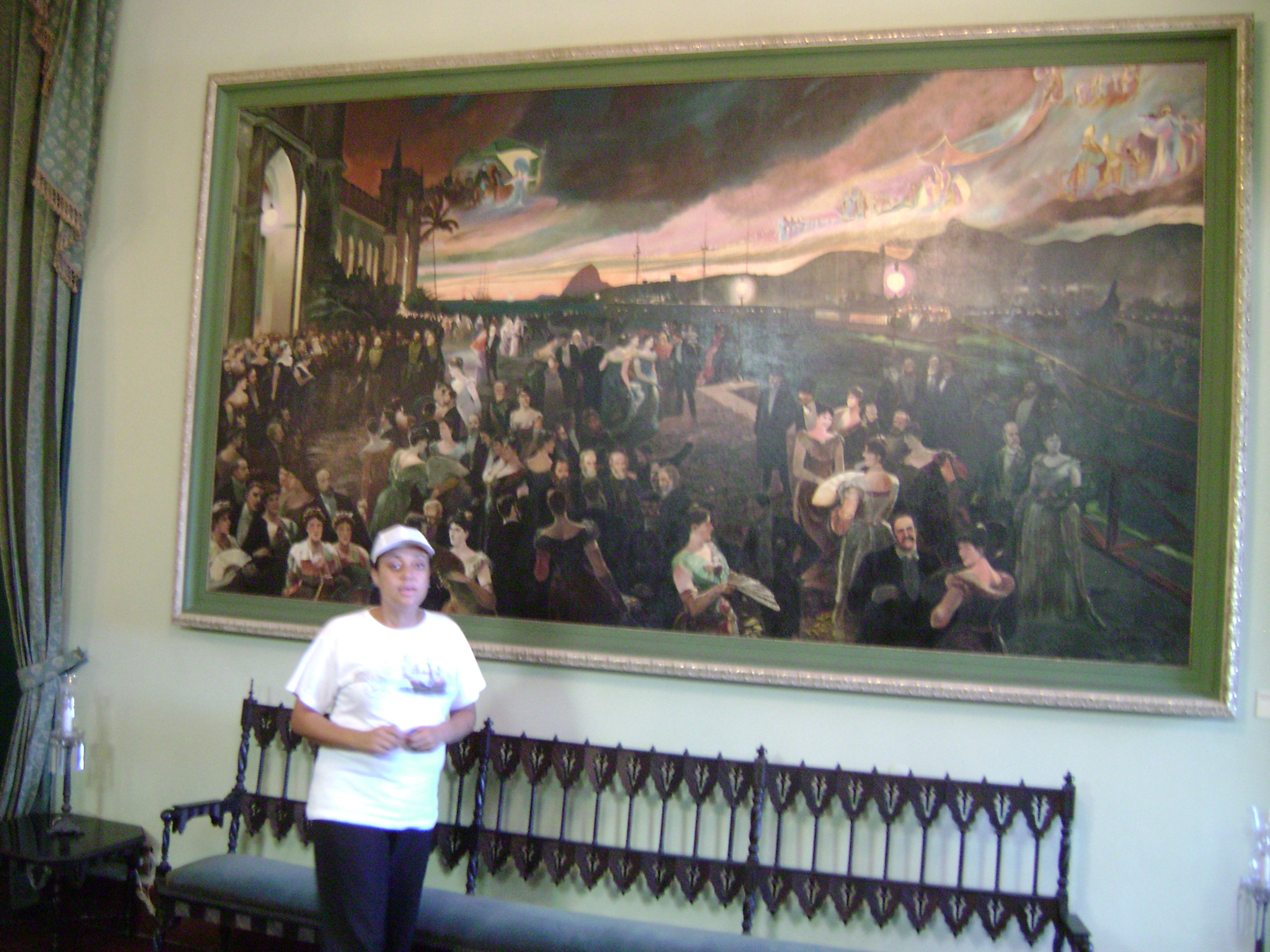 Tourist Guide of Espaço Cultural da Marinha to work at Ilha Fiscal, in the city of Rio de Janeiro. Photo with permission of the guide, and was given permission to photograph the entire interior of the island where the tourist has access, including furniture and pictures. Alongside the guide is a replica of the table Último Baile, oil on canvas by Francisco Aureliano de Figueiredo e Melo (1856-1916), 1905.